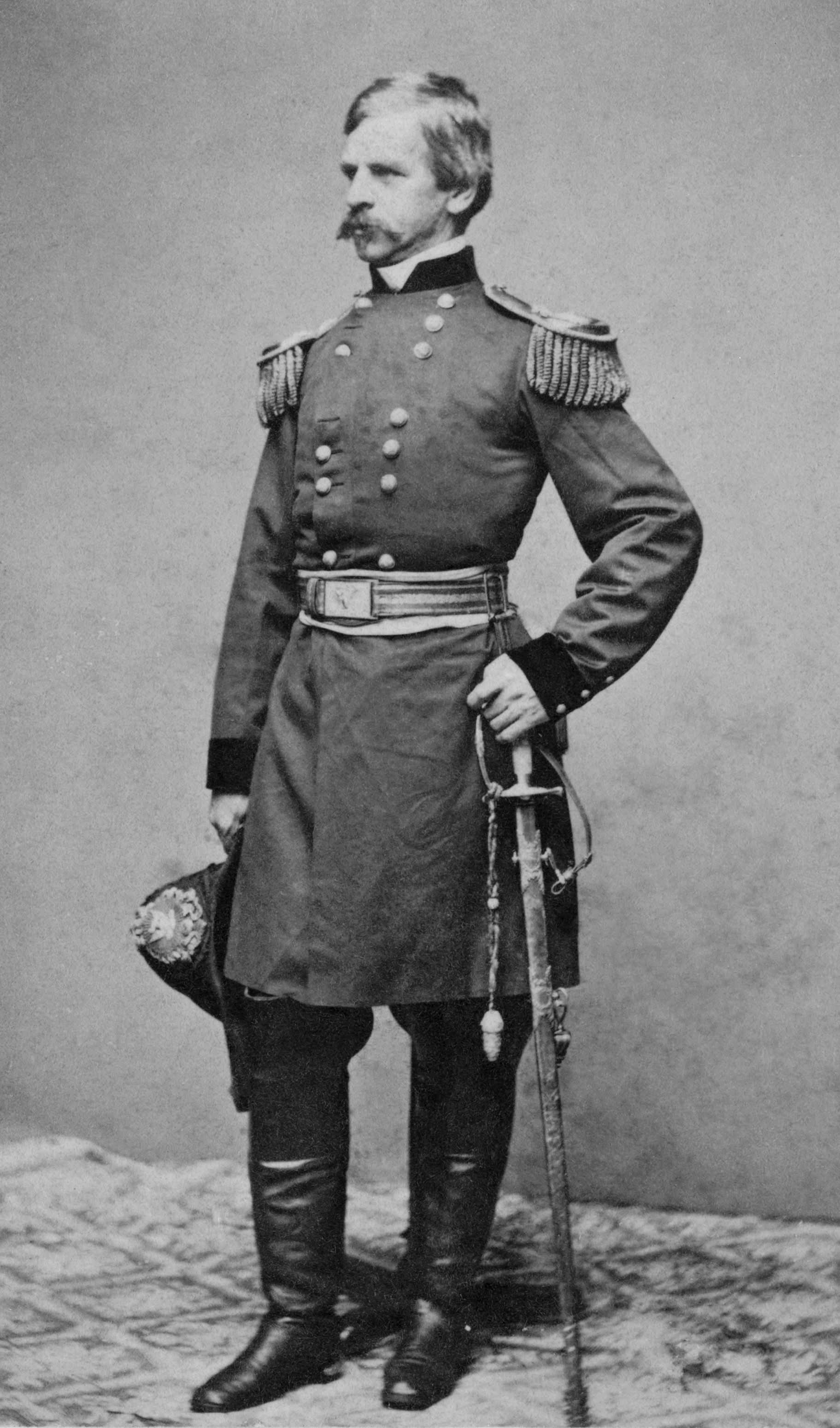 Major General N.P. Banks, full-length portrait, standing, facing left.